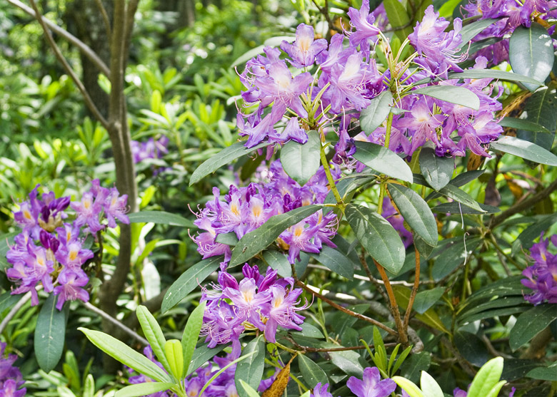 Rhododendron ponticum in the Bulgarian reserve Silkosia